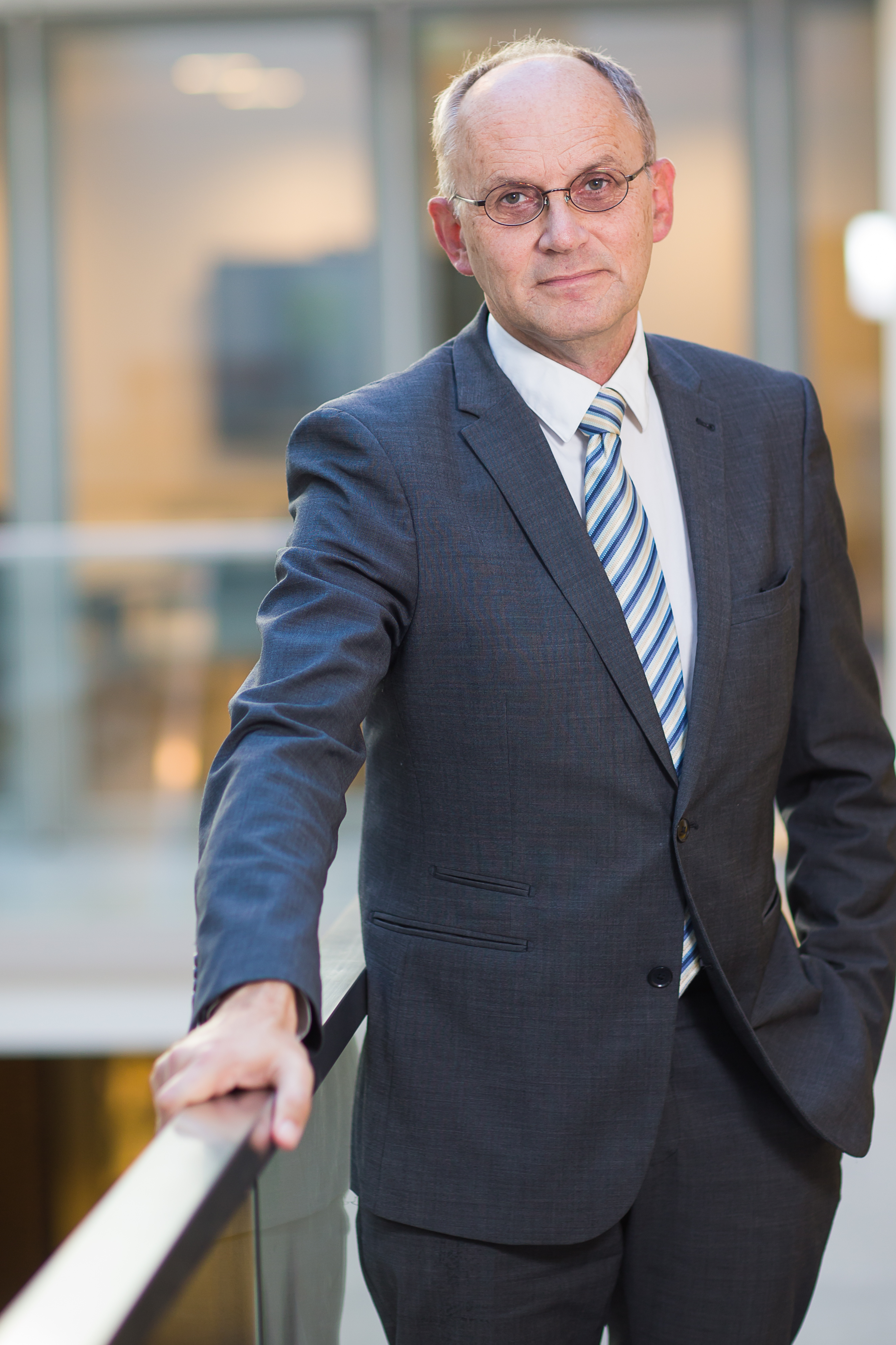 T.A. Boer